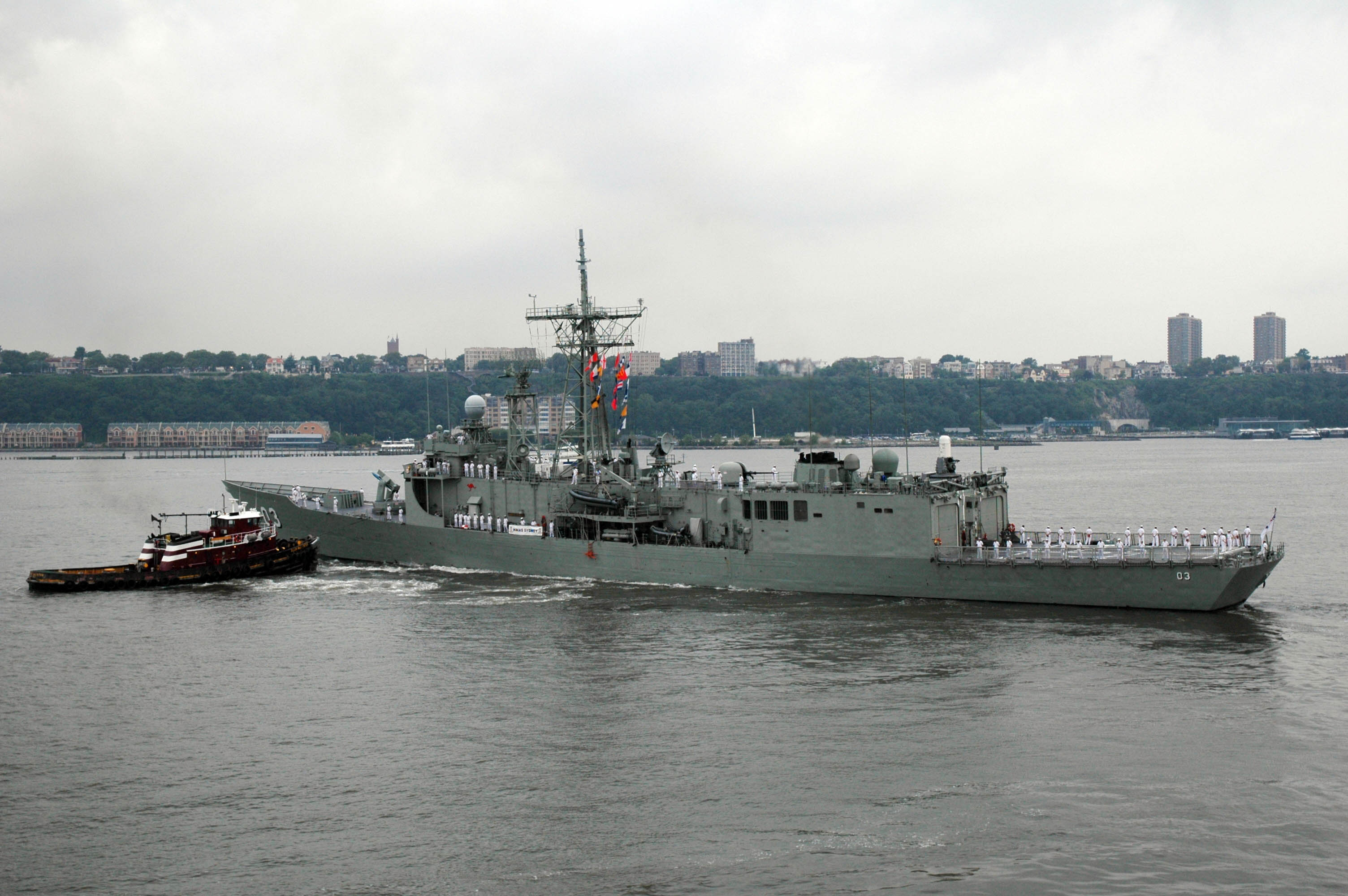 The Royal Australian Navy frigate HMAS Sydney (FFG 03) departs New York after a port visit during Operation Northern Trident.